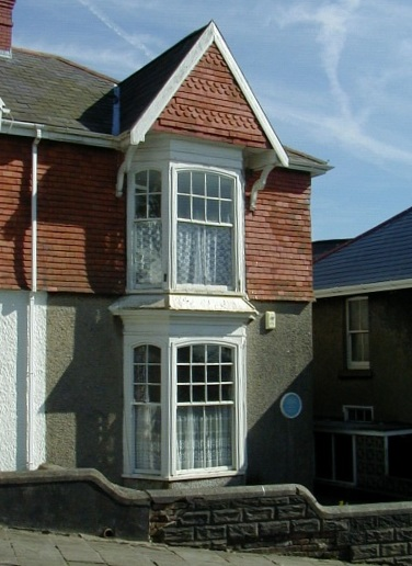 Dylan Thomas' Birthplace. 5 Cwmdonckyn Drive, Swansea - Birthplace of poet Dylan Thomas""